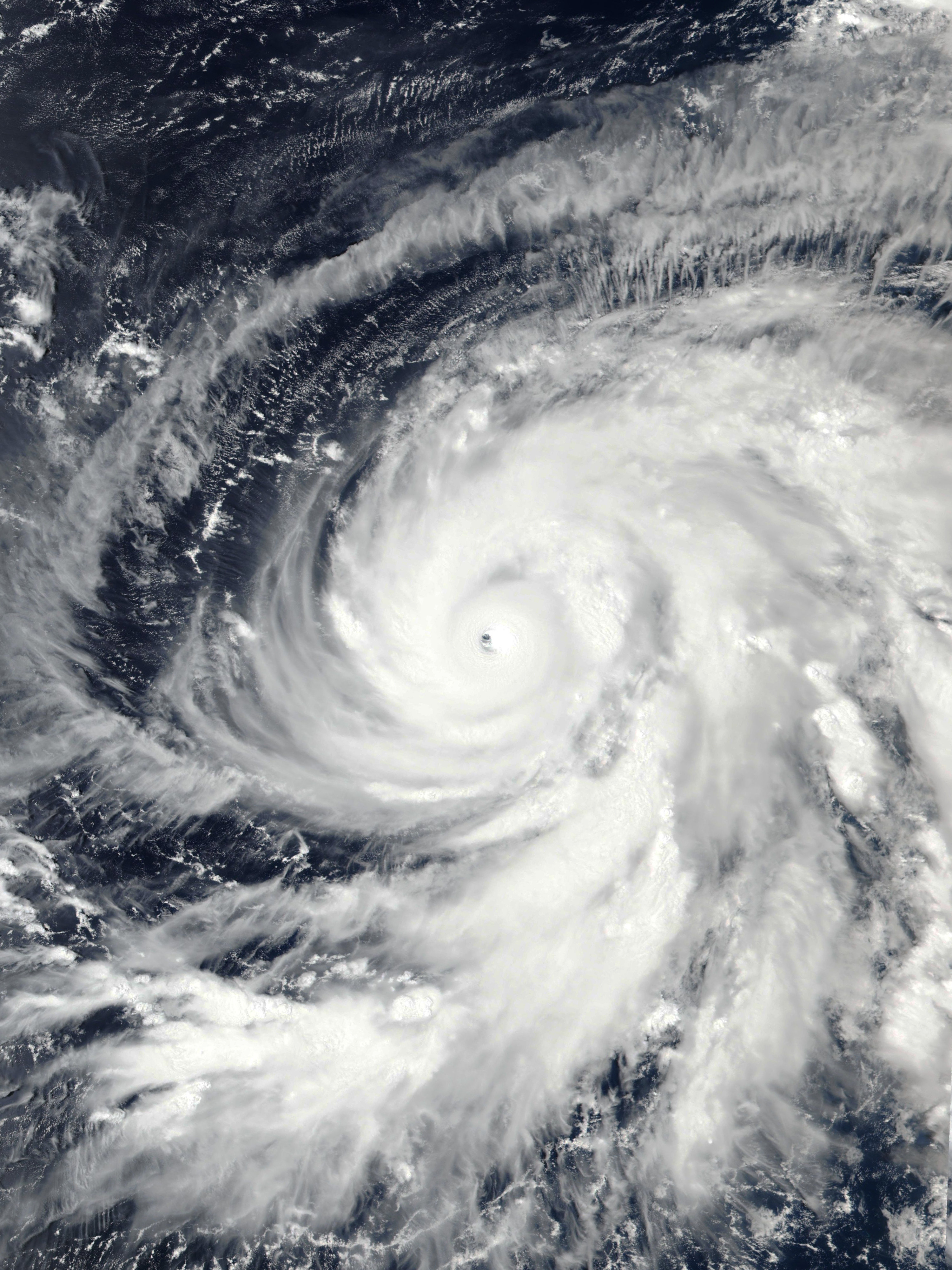 Hurricane Walaka near peak intensity on October 1, 2018.